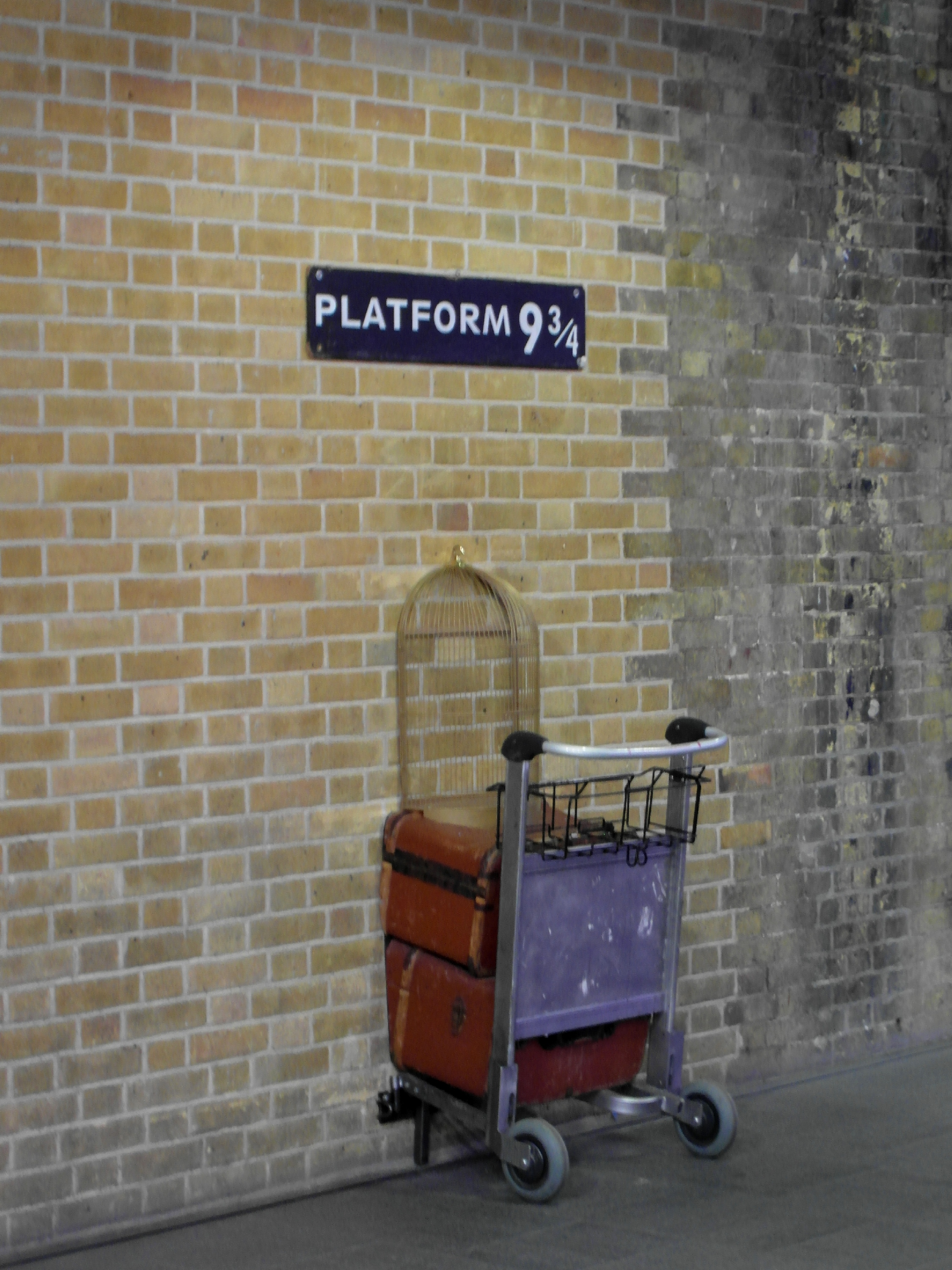 London - King's Cross railway station